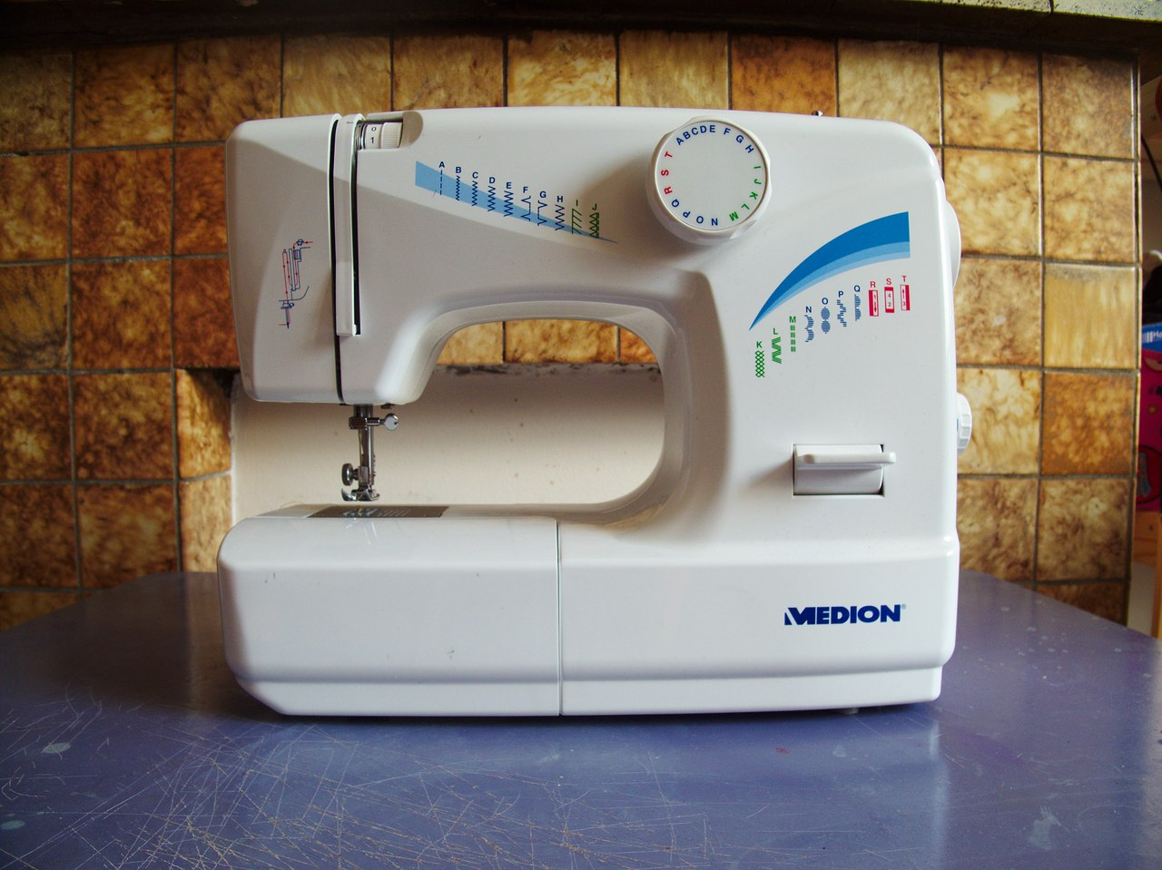 sewing machine medion